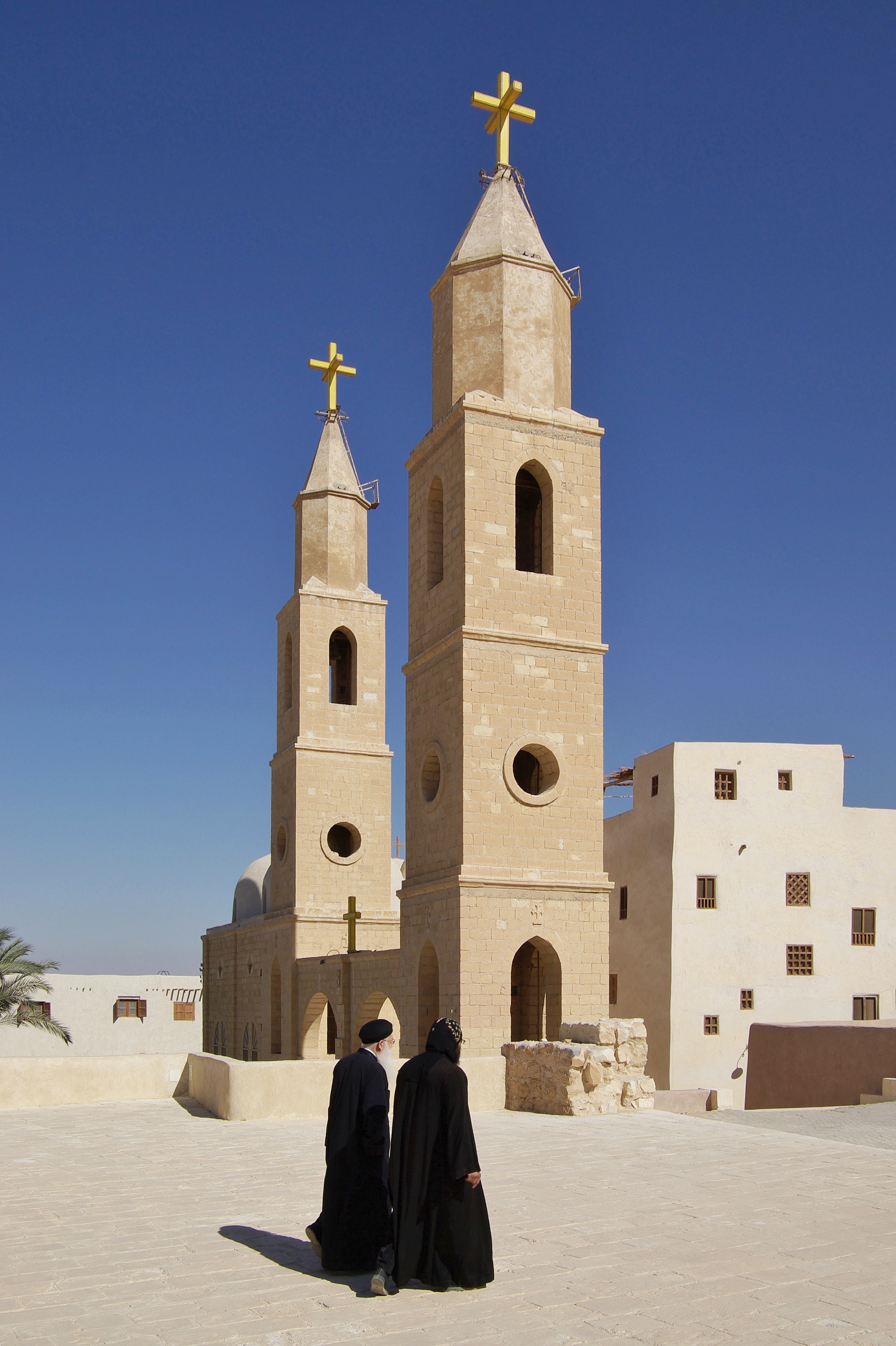 Monastery of Saint Anthony, Egypt